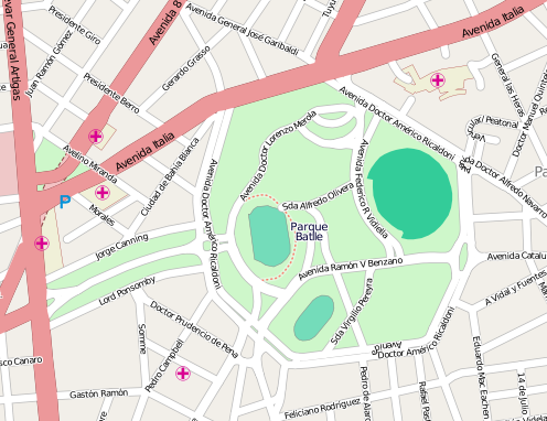 Map of Parque Batlle, Montevideo, Urugay